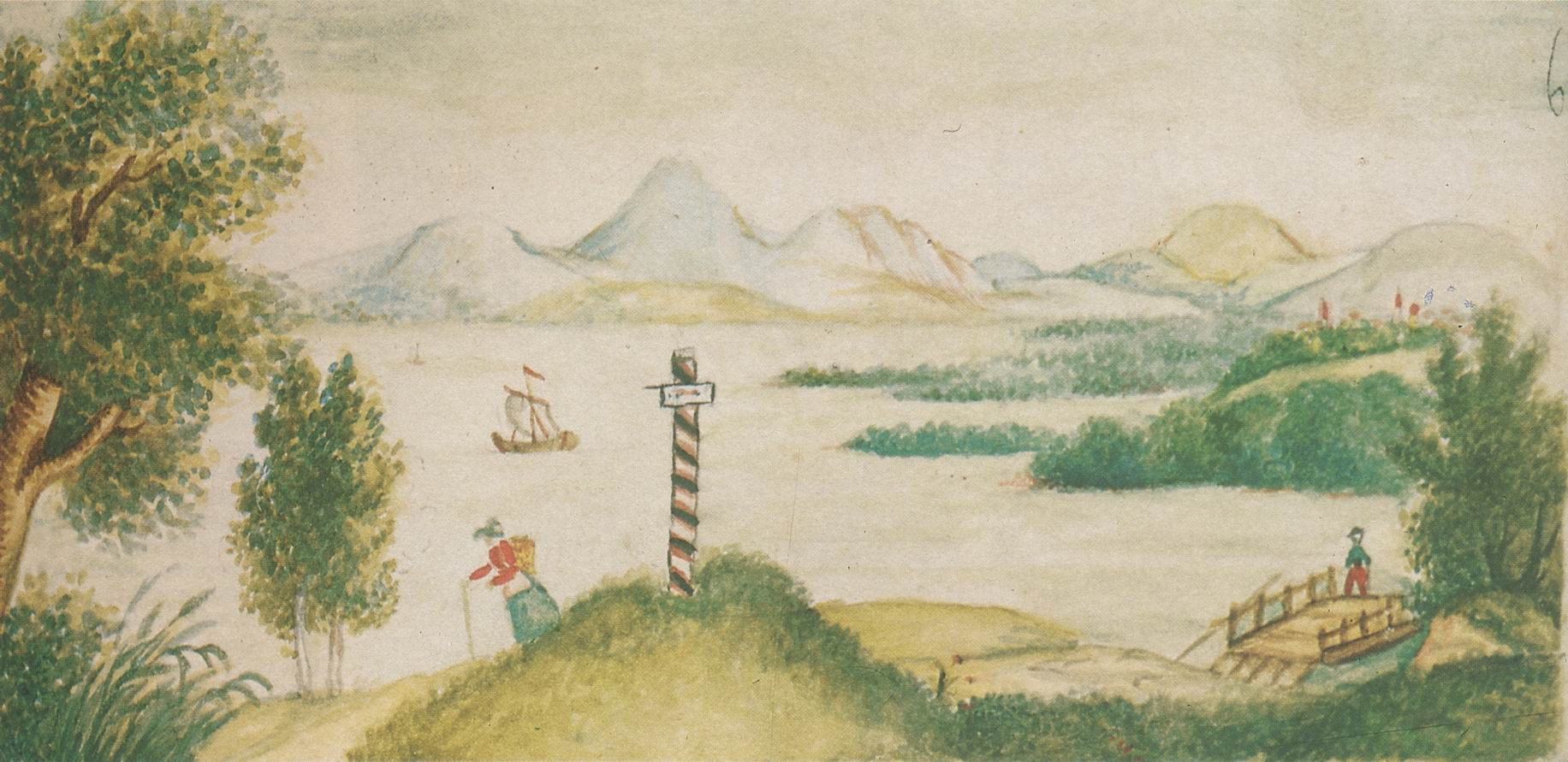 The Caucasus. Landscape with a lake.